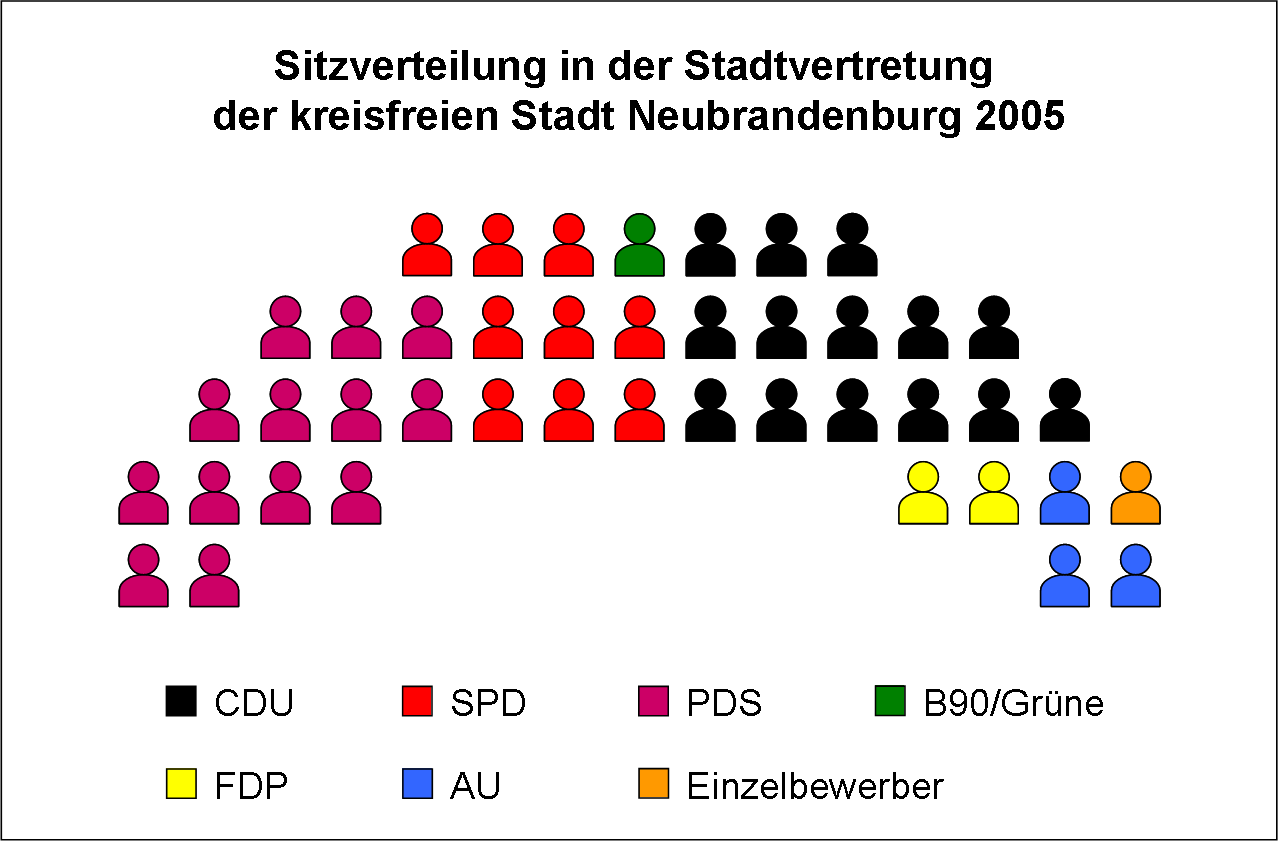 Election apportionment diagram in the Stadtvertretung (town parliament) of the urban district Neubrandenburg in 2005.